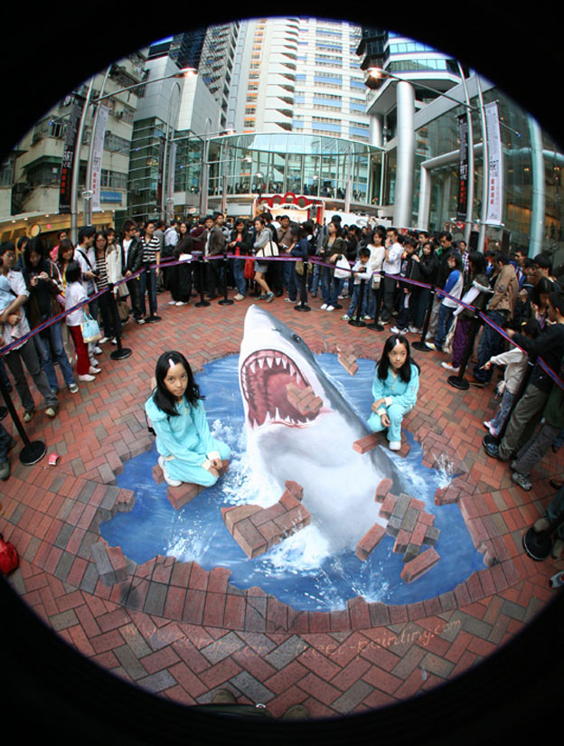 3-d project done in Hong Kong at an arts festival